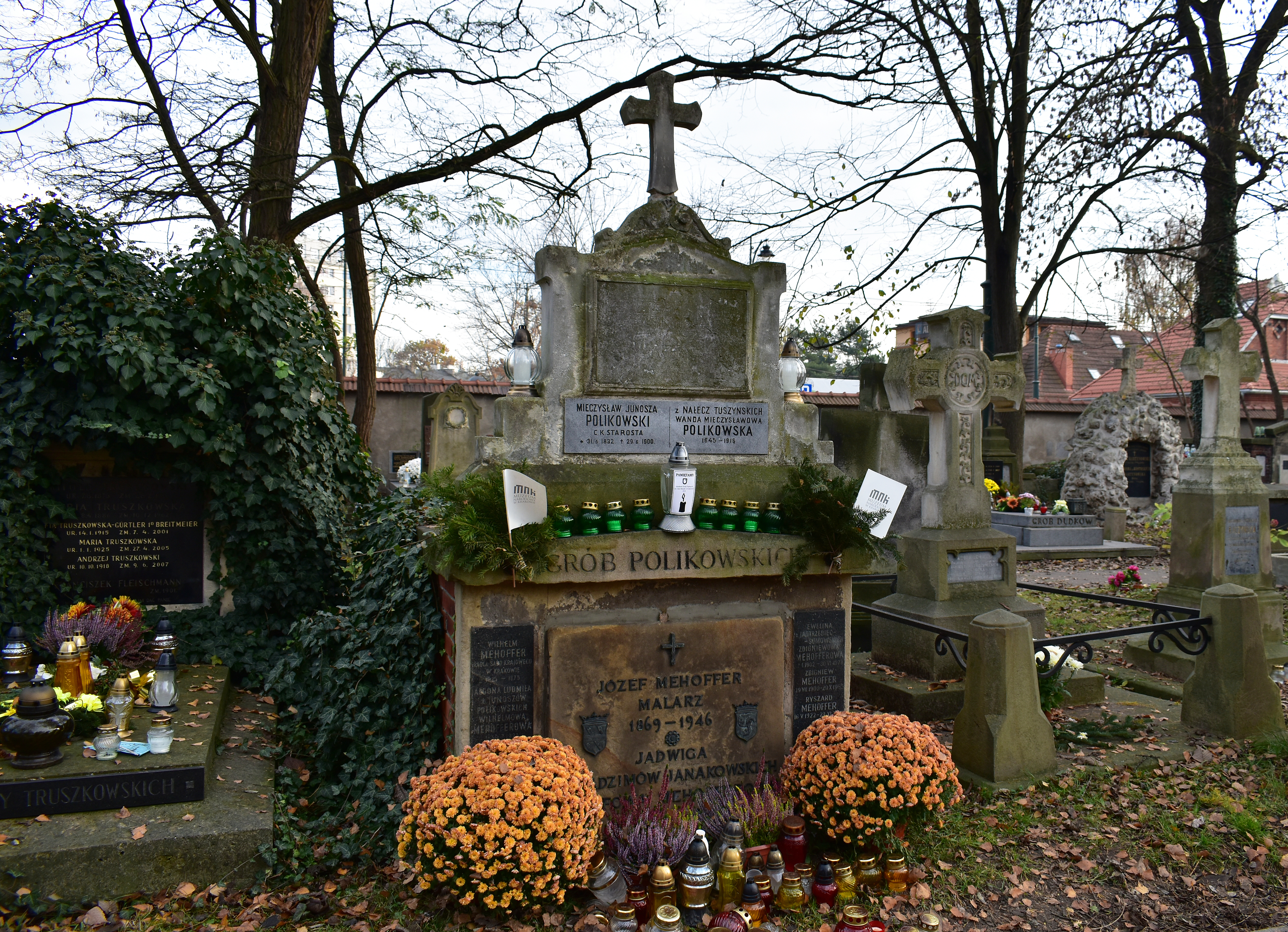 Grave of Jozef Mehoffer (Polish painter, glass-painter, graphic artist), Rakowice Cemetery, 26 Rakowicka street, Krakow, Poland